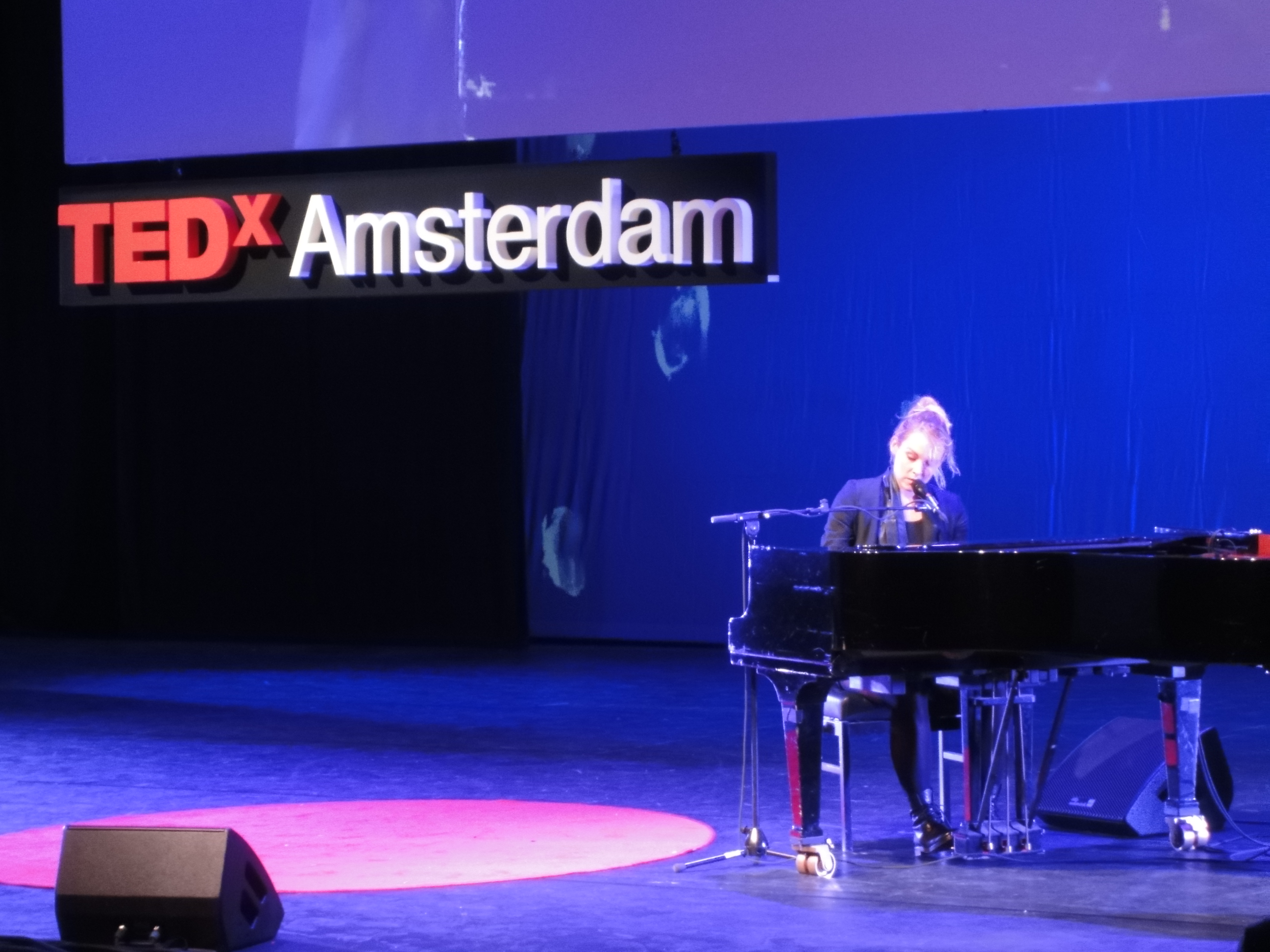 Personality rights warningAlthough this work is freely licensed or in the public domain, the person(s) shown may have rights that legally restrict certain re-uses unless those depicted consent to such uses. In these cases, a model release or other evidence of consent could protect you from infringement claims.